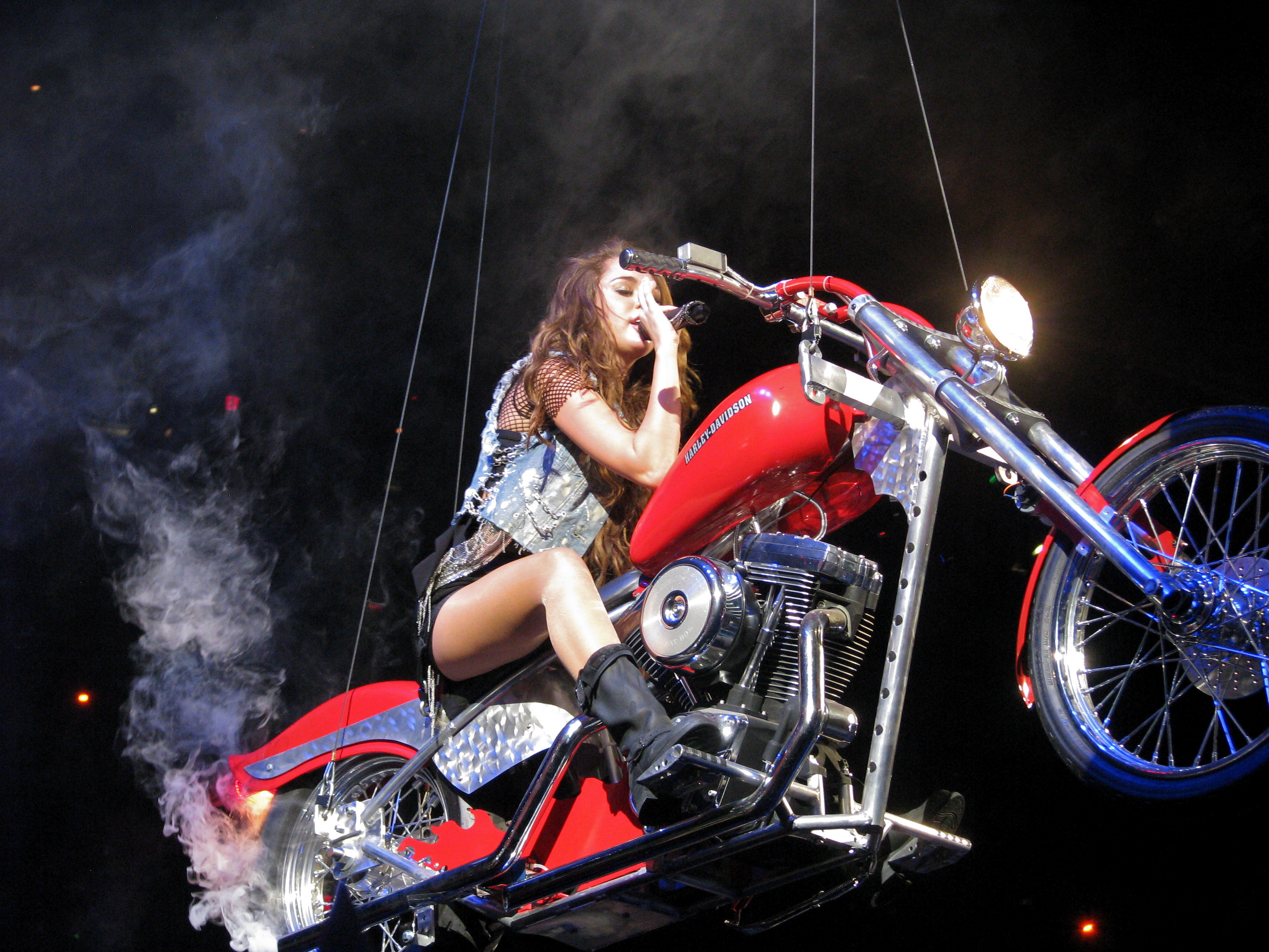 Pop singer Miley Cyrus performs "I Love Rock 'n' Roll", wearing a a black tee, black, leather hotpants, and denim vest, atop a Harley-Davidson motorcycle, on September 14, 2009 at the Rose Garden in Portland, Oregon, as part of her 2009 Wonder World Tour.